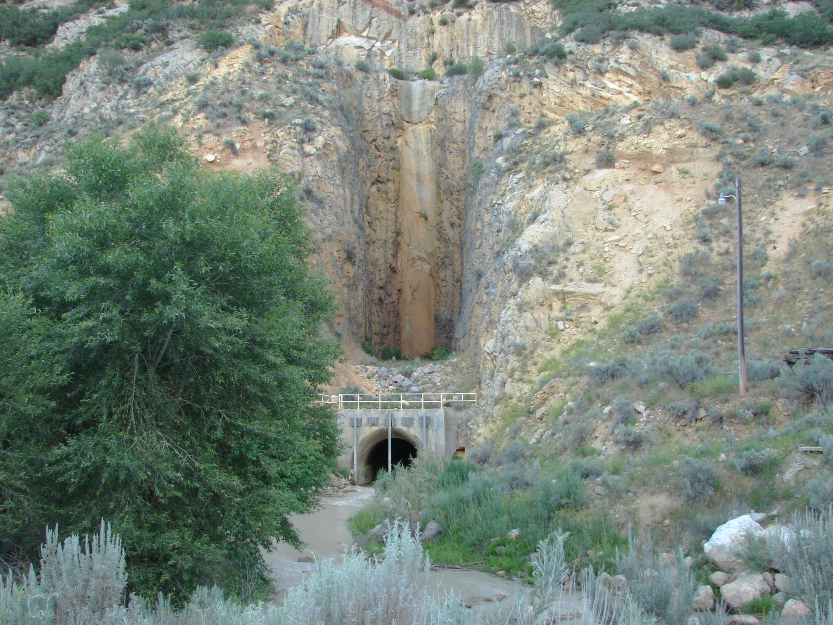 The intake for the Spanish Fork River tunnel through part of Bilies Mountain (which bypasses the Thistle Dam), just past the confluence of Soldier Creek and Thistle Creek, July 2015